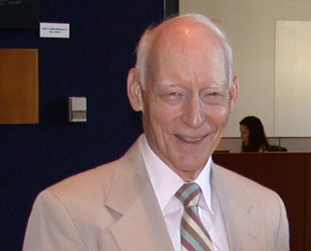 Bruce W. Arden at a 2004 reception to honor Robert C. F Bartels, held at the Alumni Center at the University of Michigan, Ann Arbor, Michigan, USA